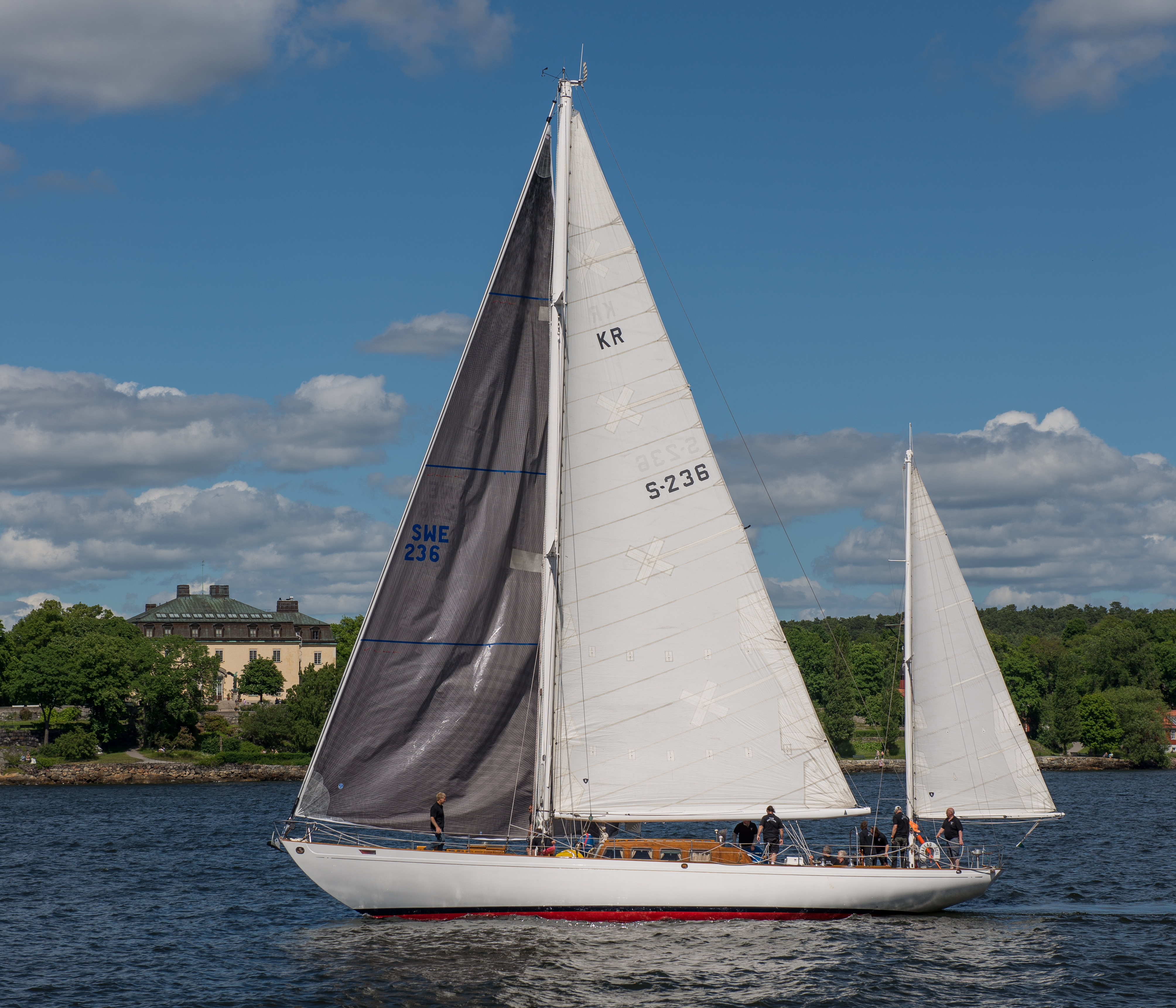 Ballad is a 60 ft Sparkman & Stephens design built 1952 at Neglinge yard in Saltsjöbaden, Stockholm. She was bought by Sven Salén in 1962, and has been owned by the family since.